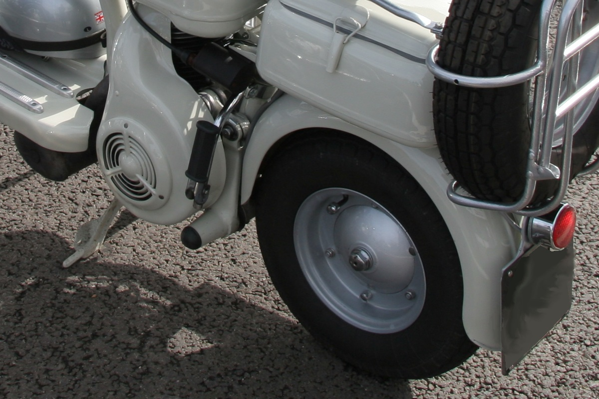 Lambretta Model D 123cc – no suspension on port side (left side of rider facing forward).